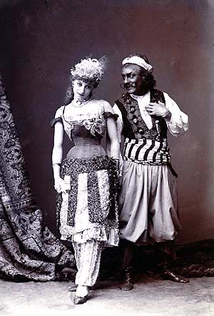 1880 photo of the original production of Robert Reece and Meyer Lutz's The Forty Thieves. This production was staged at the Gaiety Theatre as the Christmas show in 1880. It was described as a 'burlesque in three acts' rather than a pantomime. Dancer and burlesque star Kate Vaughan, pictured here with her co-star E. W. Royce, was one of the main attractions of the piece. Mr Royce played Hassarac, the Captain of the Thieves, and Kate Vaughan played Morgiana, the servant of the merchant Ali Baba.